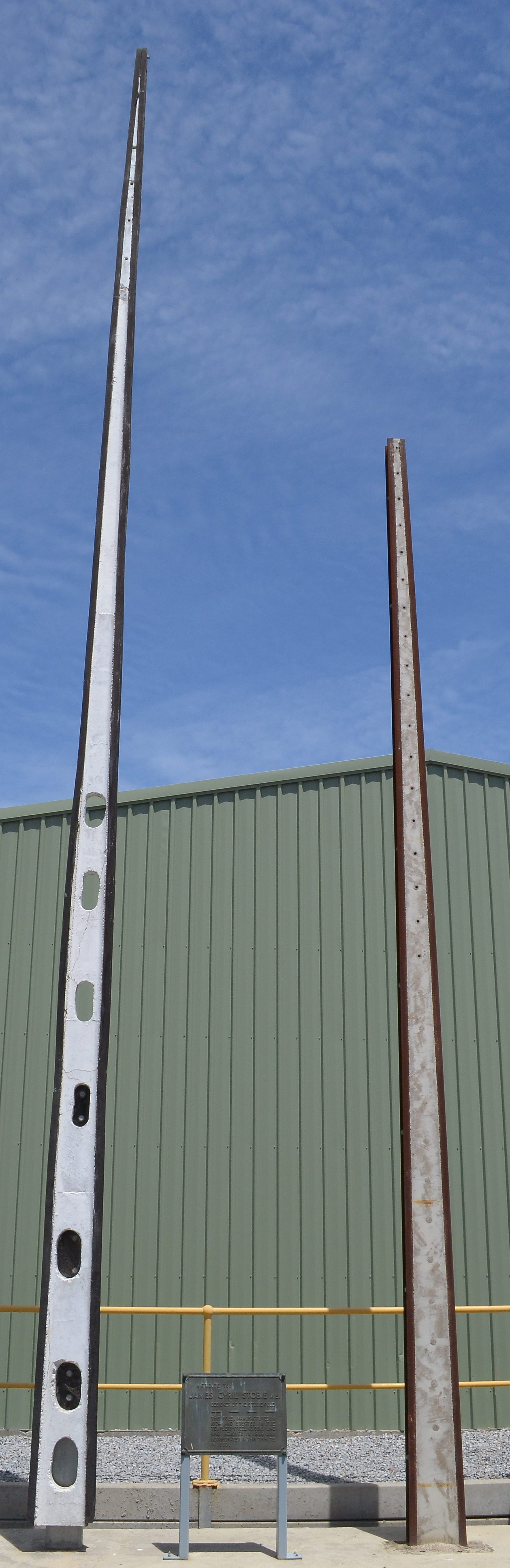 An original 1924 Stobie Pole (left) mounted next to a modern Stobie Pole (right). This tribute is located at the Stobie Pole manufacturing plant in Angle Park, South Australia.